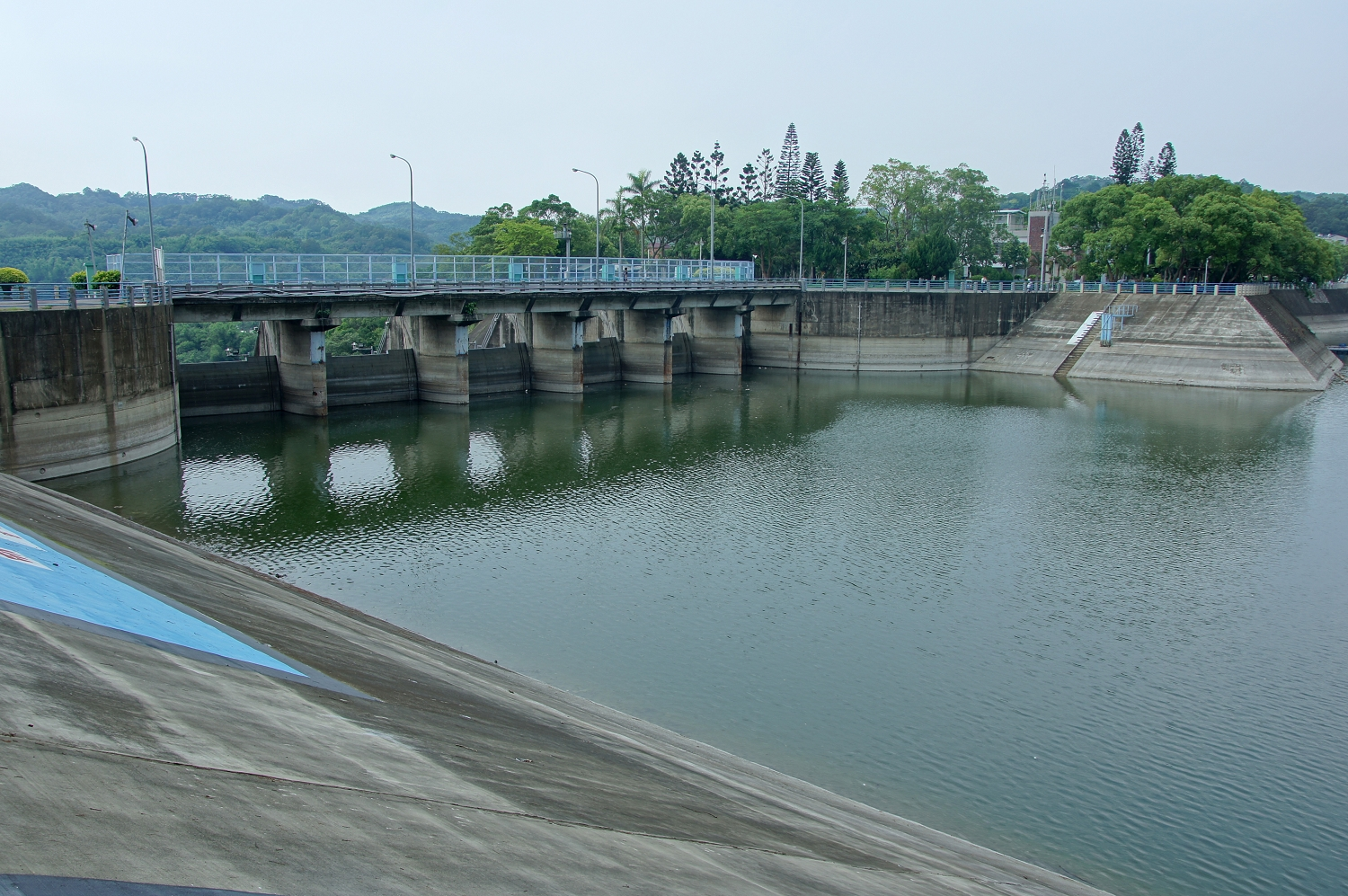 Ming-De reservoir Dam